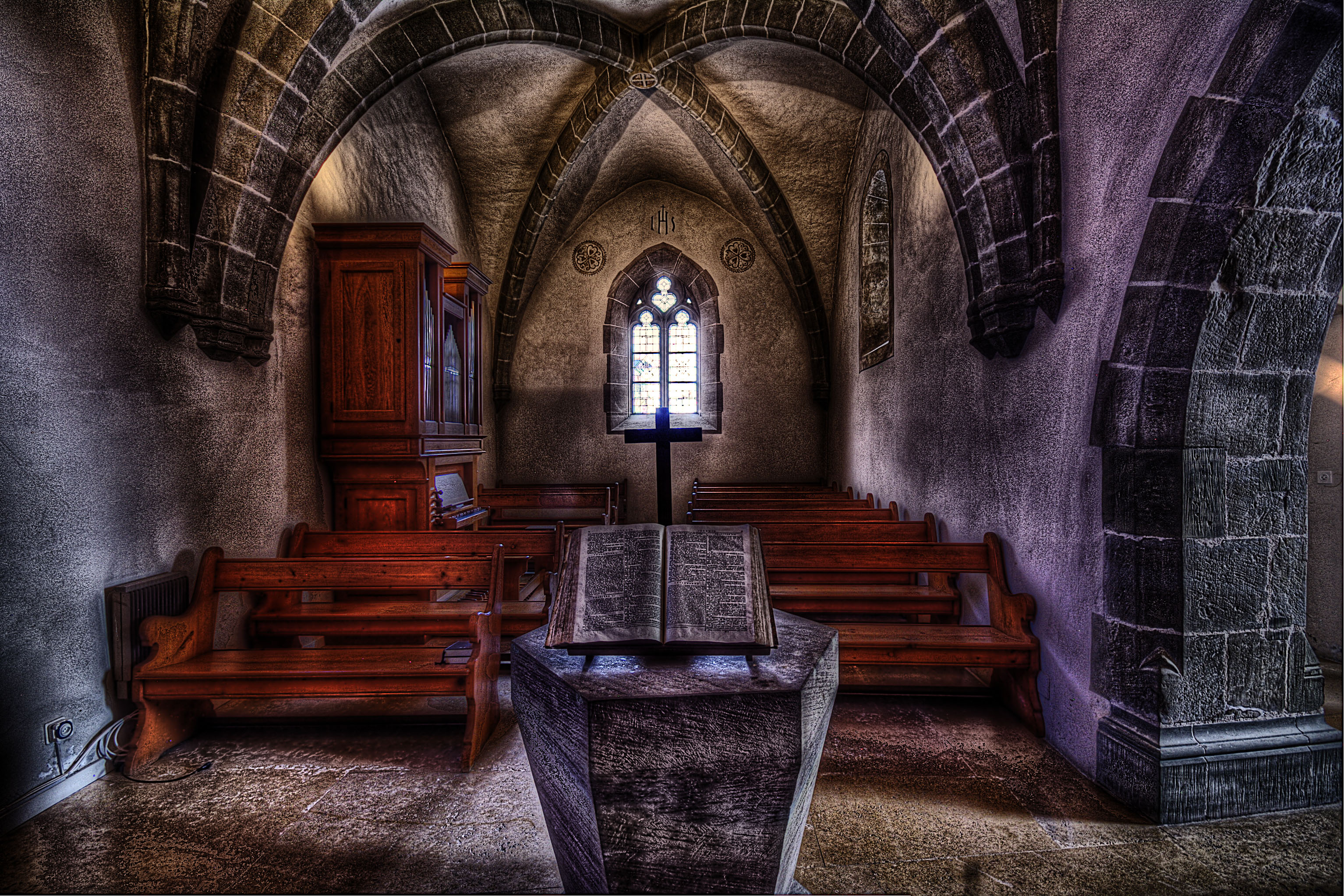 Church in Lavigny, Vaud, Switzerland. 9 exposures HDR processed with a B & W layer in photoshop.